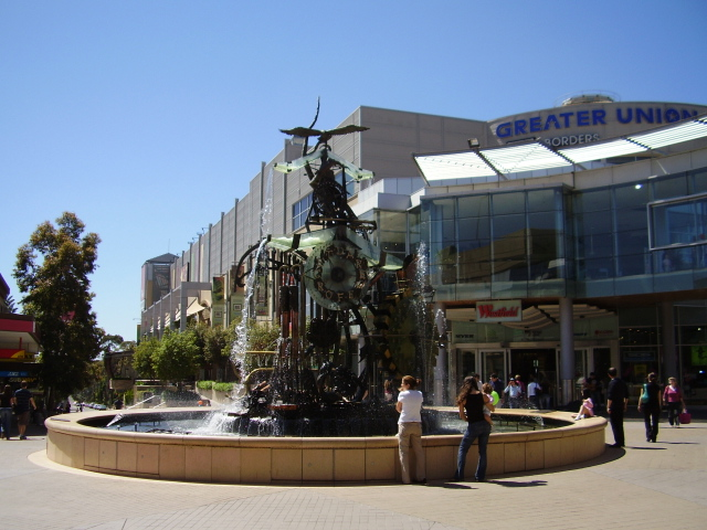 Florence Street Mall, Hornsby, Australia, with fountain and Westfield Shoppingtown. Photo by Miles Li.